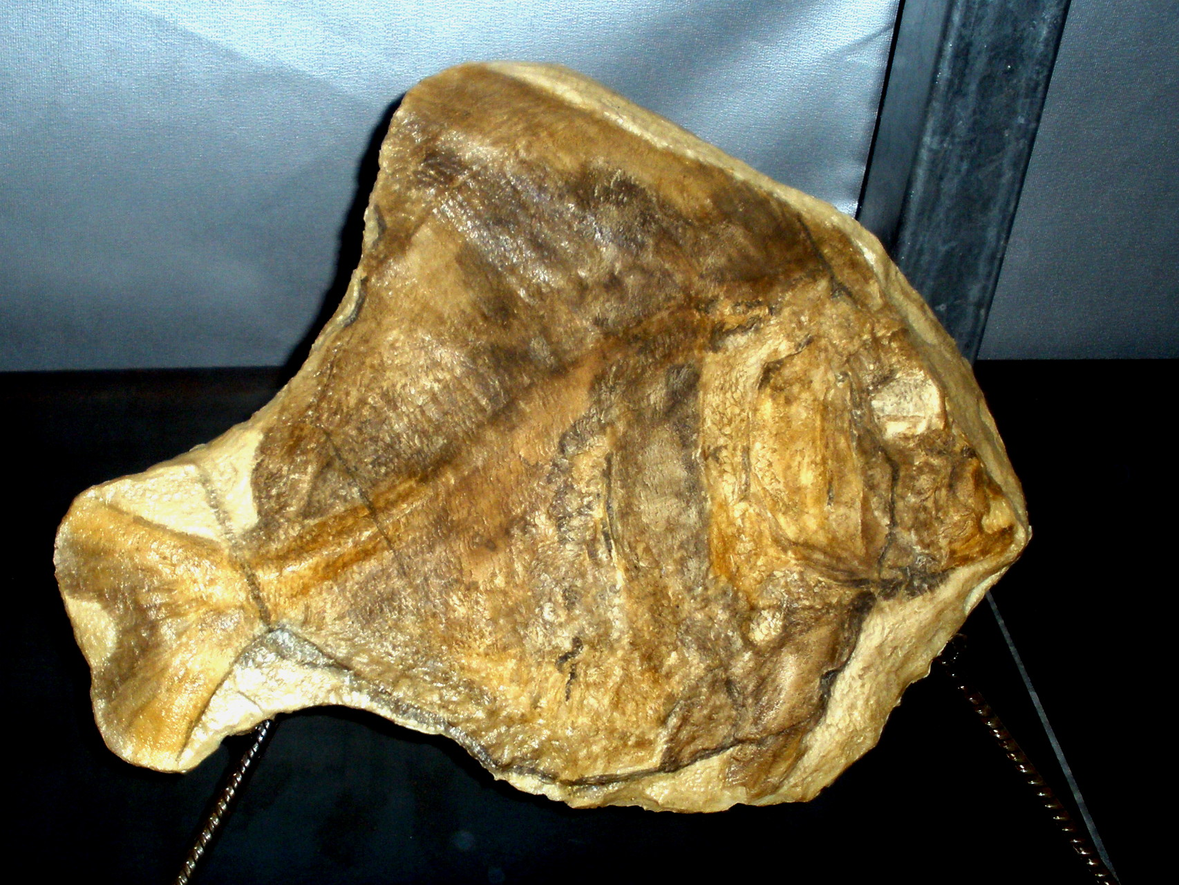 fossil of the teleost fish Araripichthys castilhoi Fossilworks PaleoDB link: Araripichthys Silva Santos 1985 (extinct)